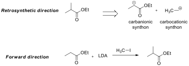 Comparison between retrosynthetic analysis and the chemical synthesis for an ester alkylation